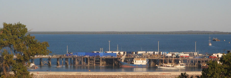 Filming of the movie Australia at Stokes Hill Wharf in Darwin. Photo taken by Bidgee